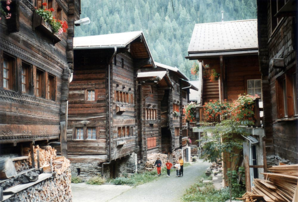 Wooden houses in Kippel, the main village of Lötschental valley